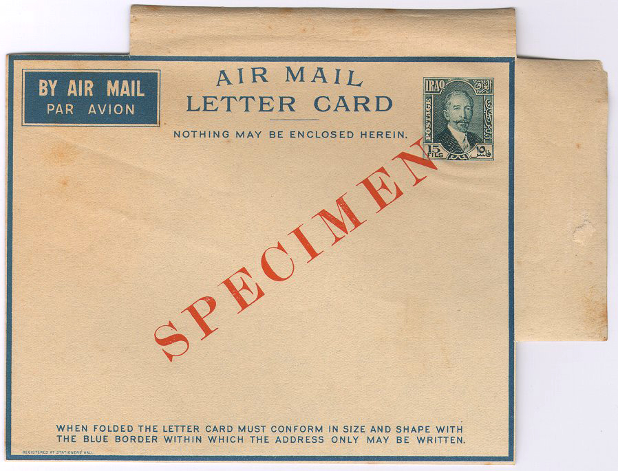 A specimen the first issued Iraqi aerogram, 1933. King Faisal I is pictured on the pre-printed 15 fils stamp.